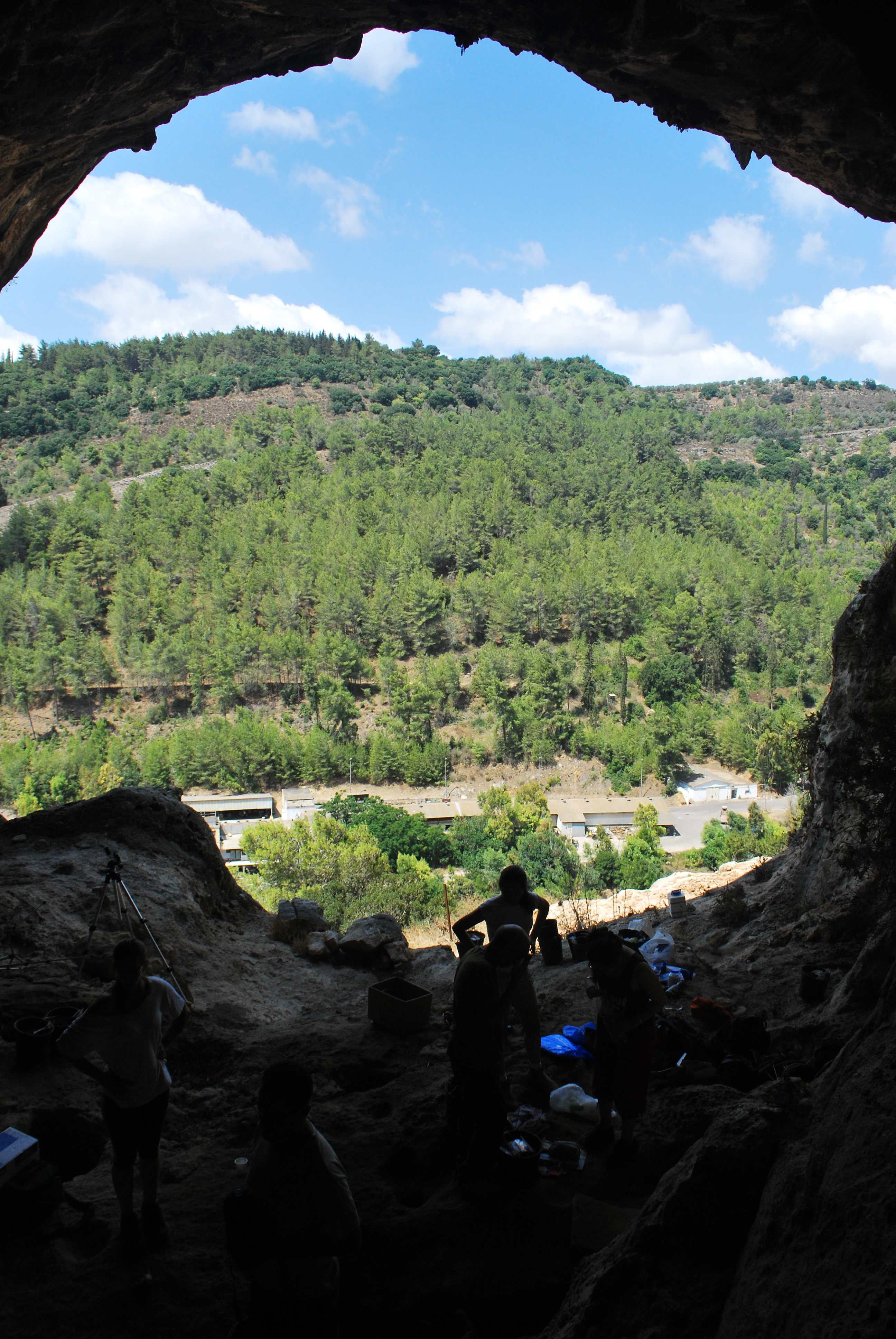 View from Raqefet Cave, Mount Carmel, Israel